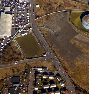 Provan gas works from the air